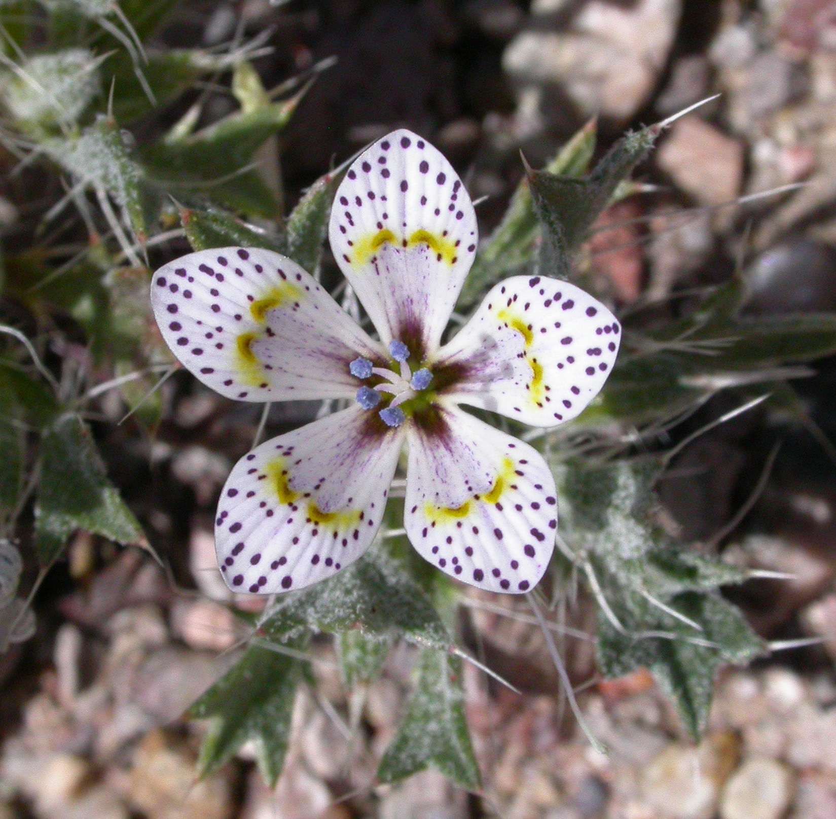 Near Amboy, CA